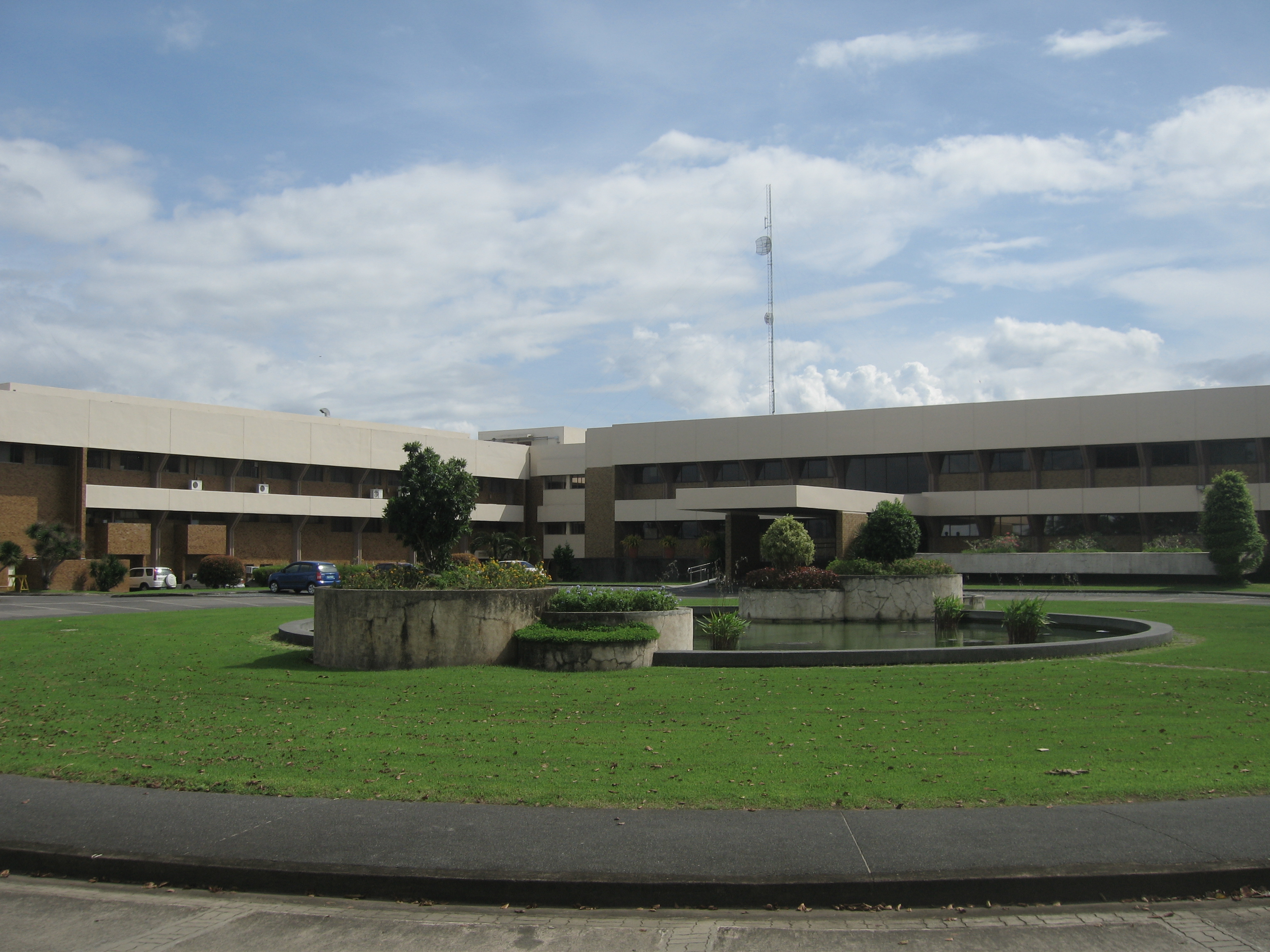 Head Quarters of the International Rice Research Institute in Los Baños